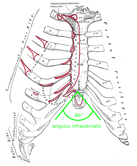 Description: Anterior surface of sternum and costa cartilages. Source: From Gray's Anatomy